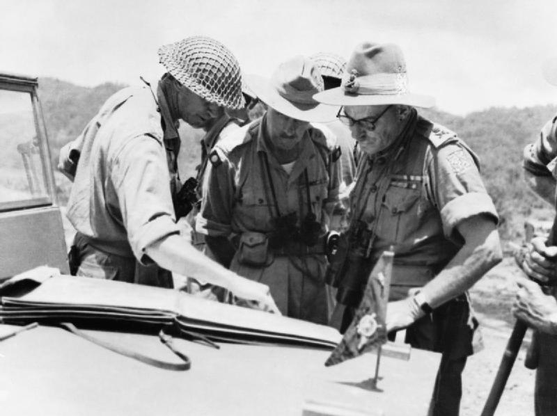 British Generals 1939-1945 General Sir Montagu Stopford (1892 - 1971): General Stopford, Commanding XXXIII Indian Corps (right), confers with Major J M L General Grover, General Officer Commanding 2nd Division (left) and Brigadier J A Salomons, the Commanding Officer of 9th Indian Brigade (centre), after the opening of the Imphal-Kohima road.